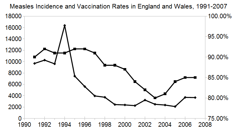 Incidence of measles and rates of measles vaccination in England and Wales, 1991–2007. All data from the Incidence data source (lower curve). Vaccination data source (upper curve).